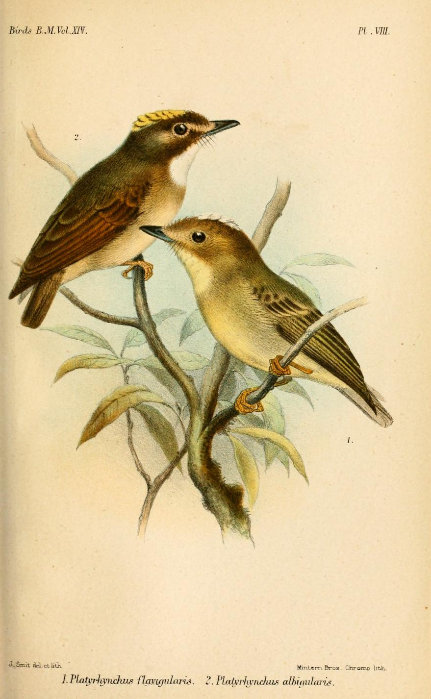 Platyrhynchus flavigularis = Platyrinchus flavigularis, Yellow-throated Spadebill (below); and Platyrhynchus albigularis = Platyrinchus mystaceus, White-throated Spadebill (above)